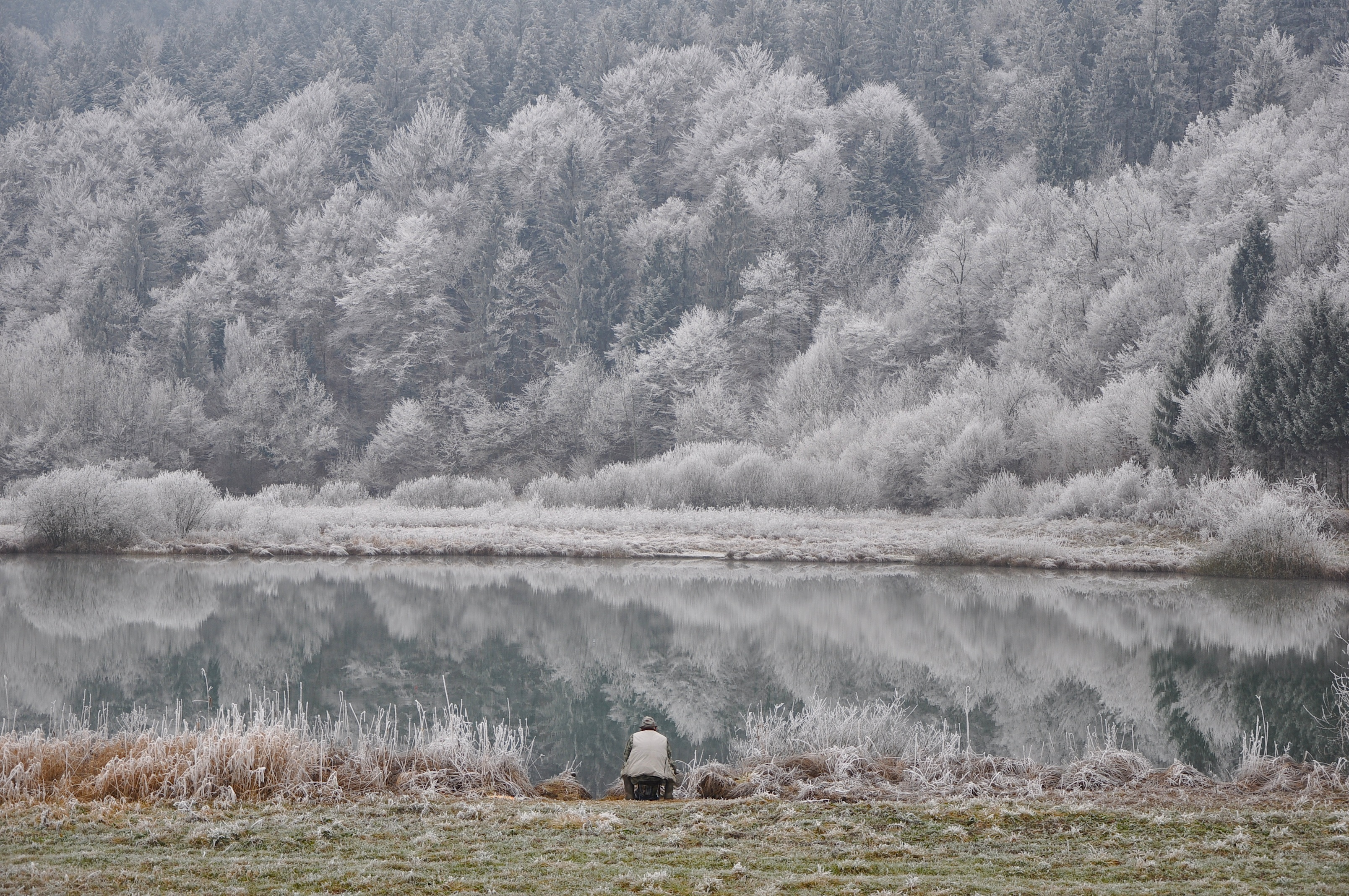 Podpeč lake, Slovenia